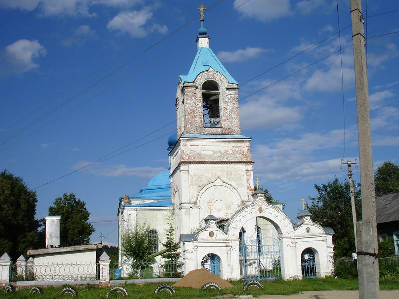 Church of the Intercession of the Virgin in the village Il'ino, Dmitrov district, Moscow region